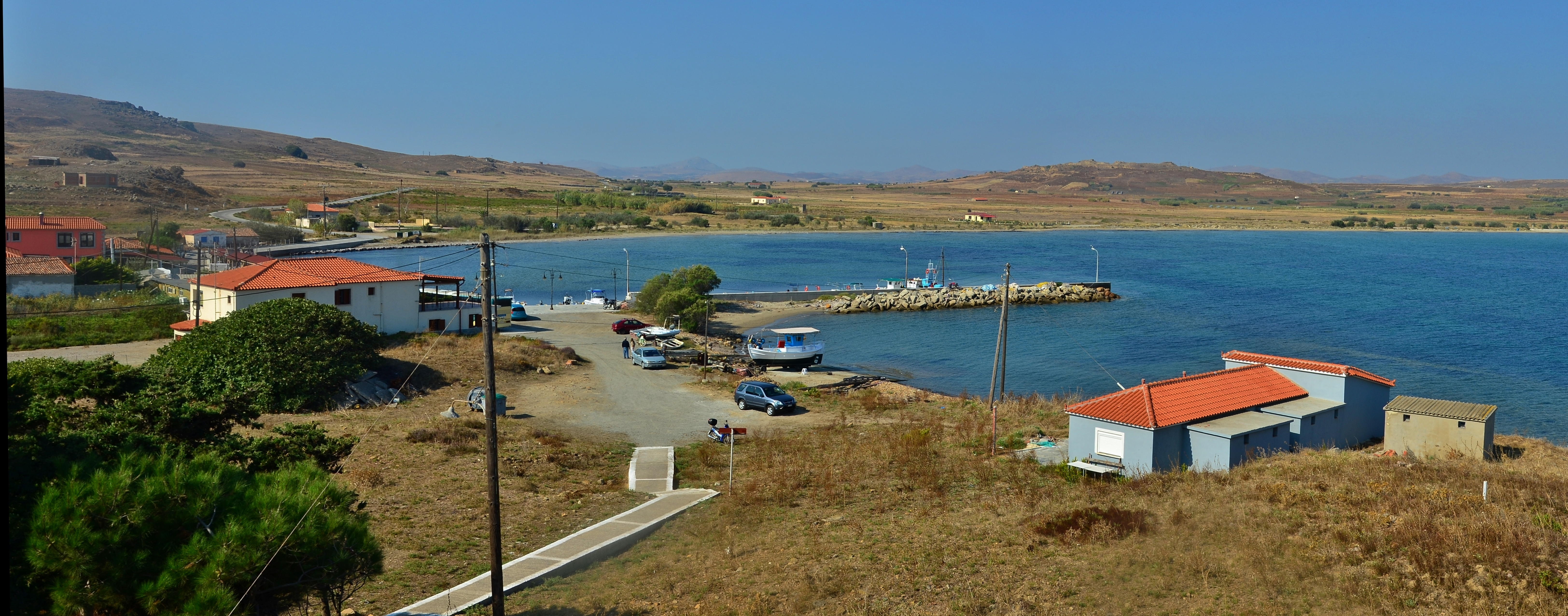 Kotsinos, Lemnos view from the castle